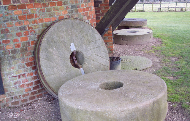 Mill Stones at Wilton Windmill